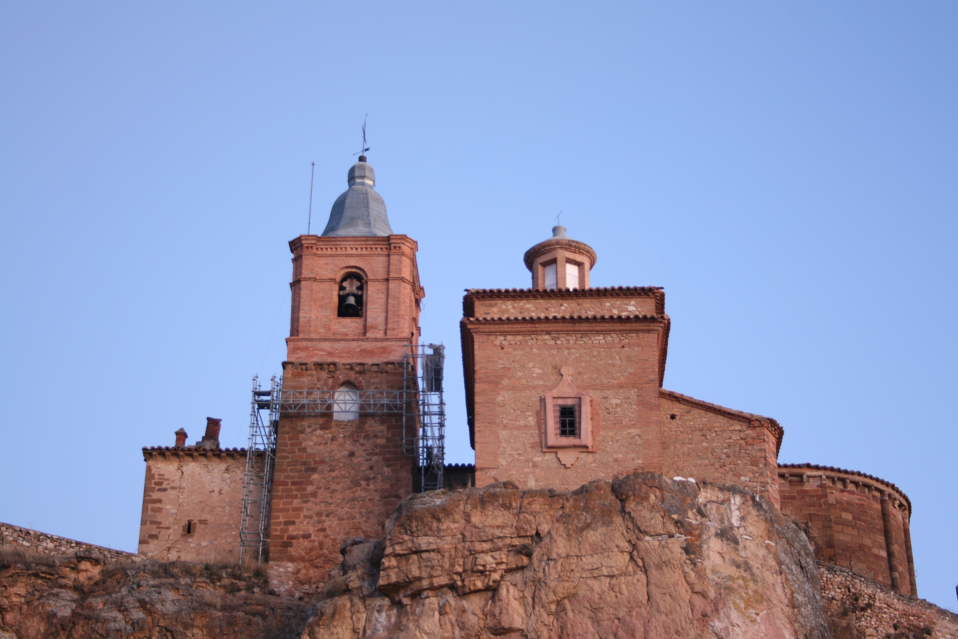 Church of San Millán, Berdejo, Spain